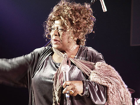 Zora Young performing at Djurs Bluesland festiva (in Denmark)l 2007